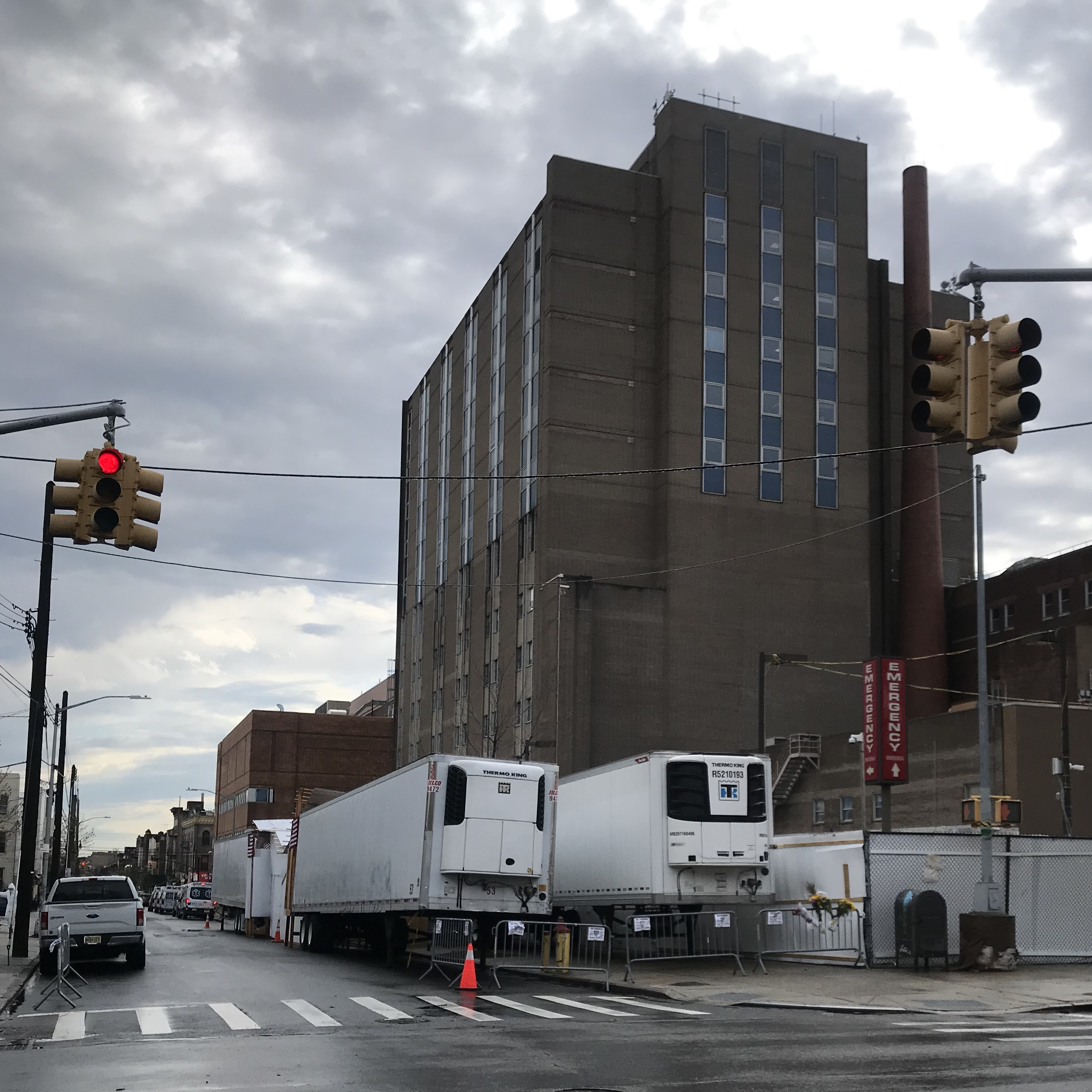 Mortuary Trucks in New York City during the Covid-19 pandemic in April 2020 by Archer West